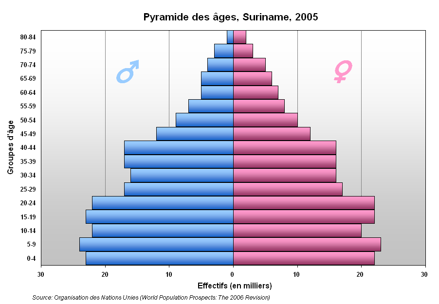 Suriname Population pyramid, 2005